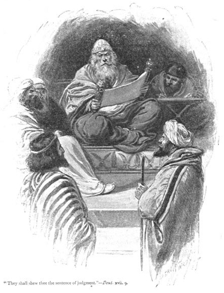 "They shall show you the sentence of judgment." Deuteronomy 17:9. Illustration by David Paul Frederick Hardy (1862-1942), active 1890-1910